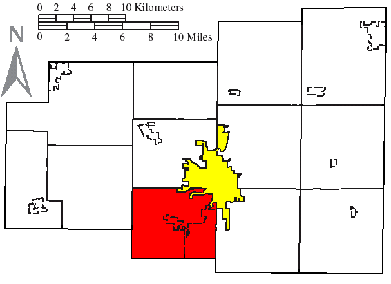 Made by the US Census and modified by myself to highlight the township